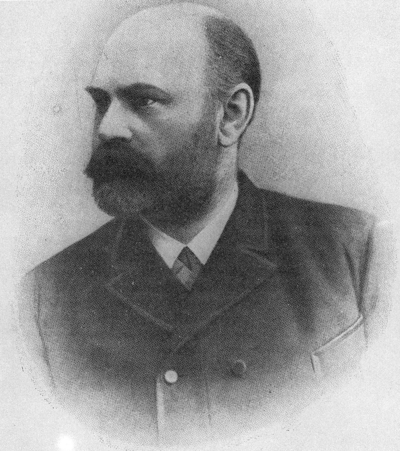 Karl Kneebusch * 3. April 1849 in Neukloster; † 17. December 1902 in Dortmund), german teacher and writer of touristic books about the Sauerland